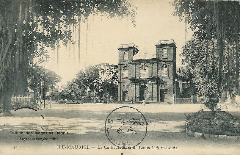 Saint Lous Cathedral, Port Louis, Mauritius